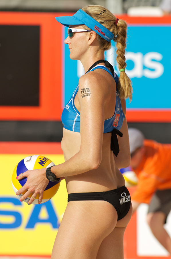 Grand Slam Moscow 2012